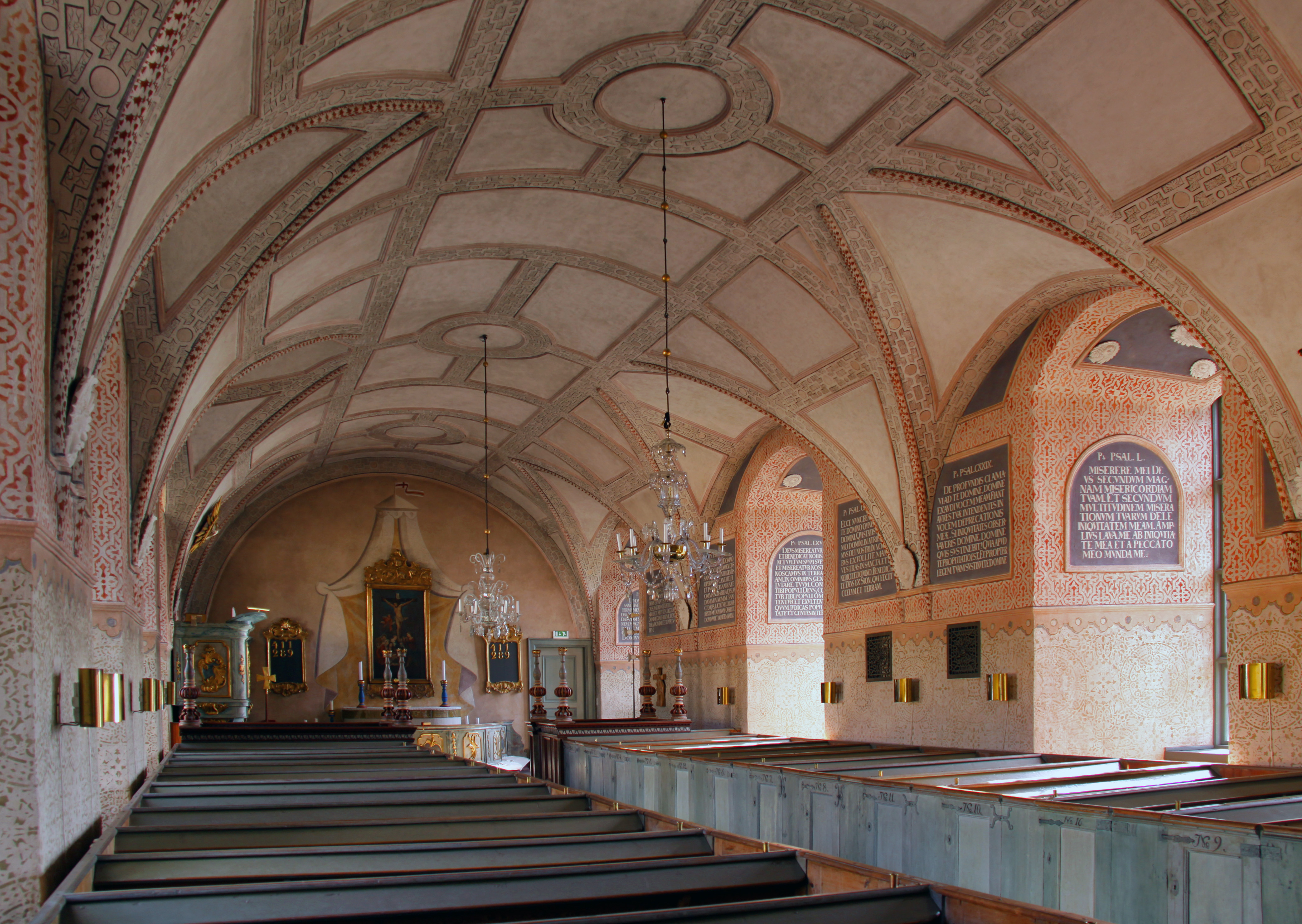 Kalmar, Sweden: the castle, the church of the castle, 1592.